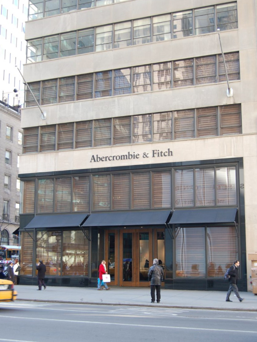 Abercrombie & Fitch, 5th Avenue